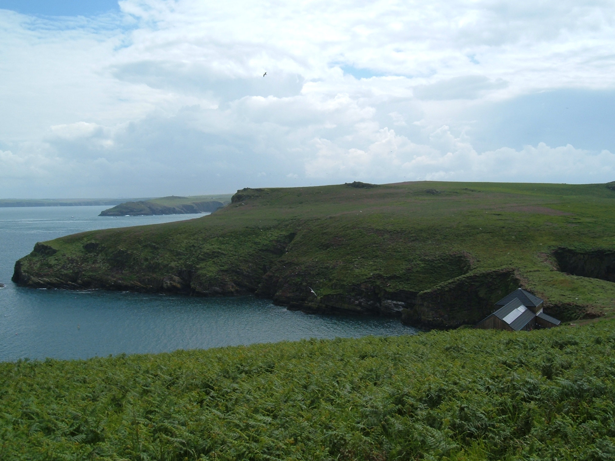 North Haven showing the Wardens Hut.